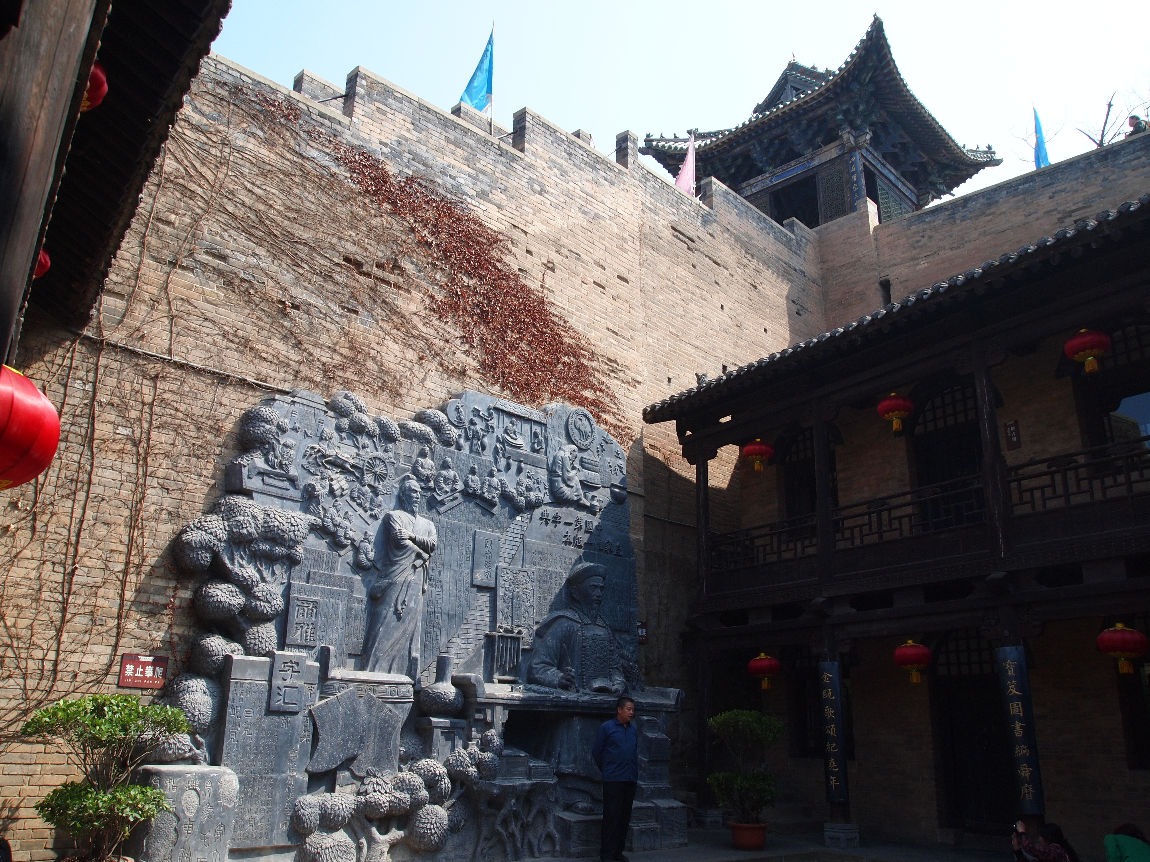 The Chinese Dictionary Museum, on the grounds of Huangcheng Xiangfu